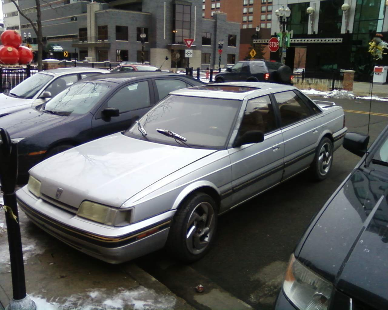 Rover Sterling 825 photographed in Lansing, Michigan USA.